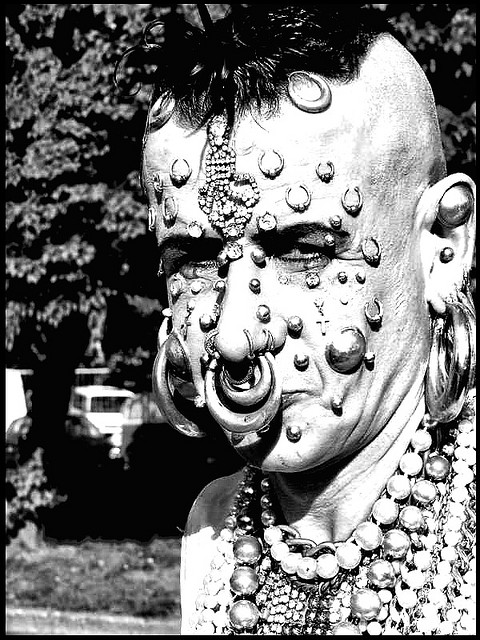 This photo was taken at the WGT 2008 in Leipzip (Germany).